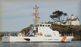 United States Coast Guard Cutter DORADO (WPB 87306).